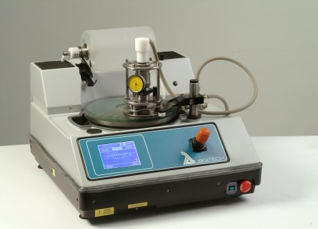 Permission is granted to copy, distribute and/or modify this document under the terms of the GNU Free Documentation License, Version 1.2 or any later version published by the Free Software Foundation; with no Invariant Sections, no Front-Cover Texts, and no Back-Cover Texts. Subject to disclaimers. Subject to disclaimers.